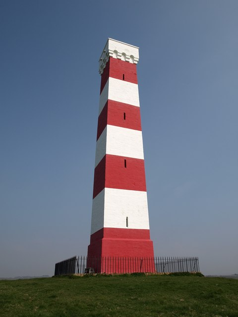 Gribbin Tower. Another view of 29711. The day navigation beacon is described at as "very tall"! Other sources agree it is 84 feet high.